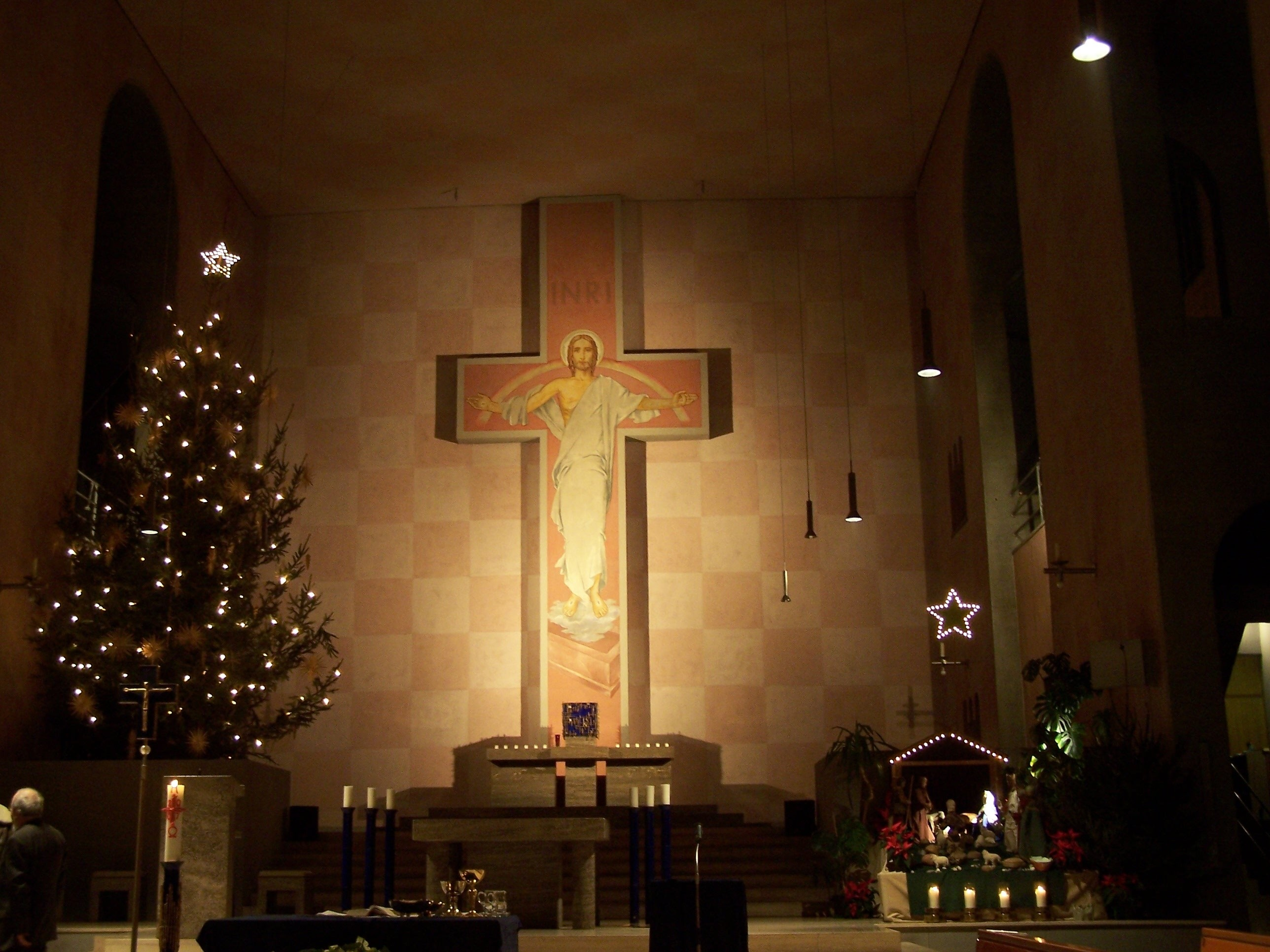 Chancel of the Holy Cross Church in Frankfurt am Main-Bornheim